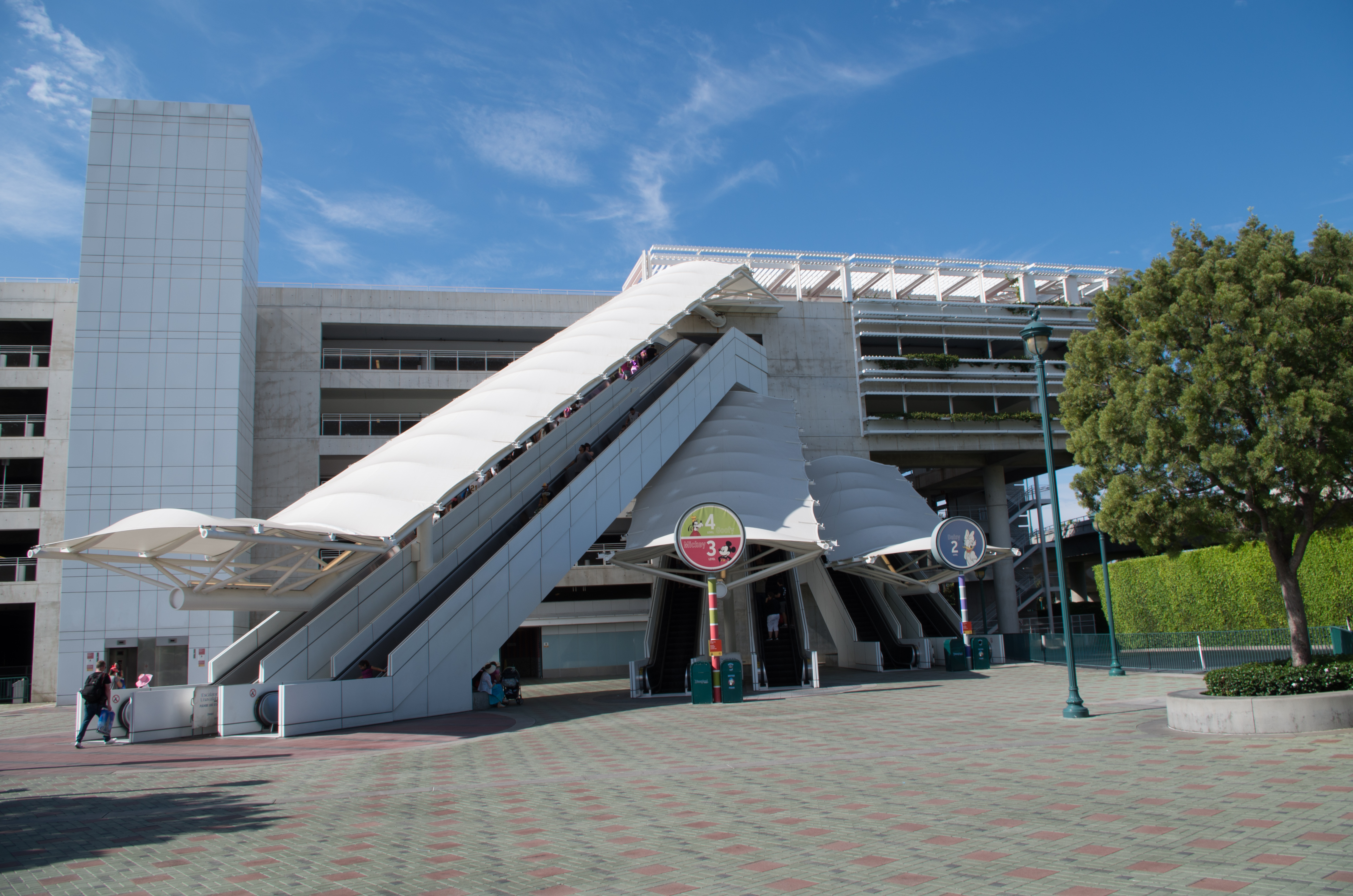 The Mickey & Friends parking structure at Disneyland Resort, as seen from the tram loading area.